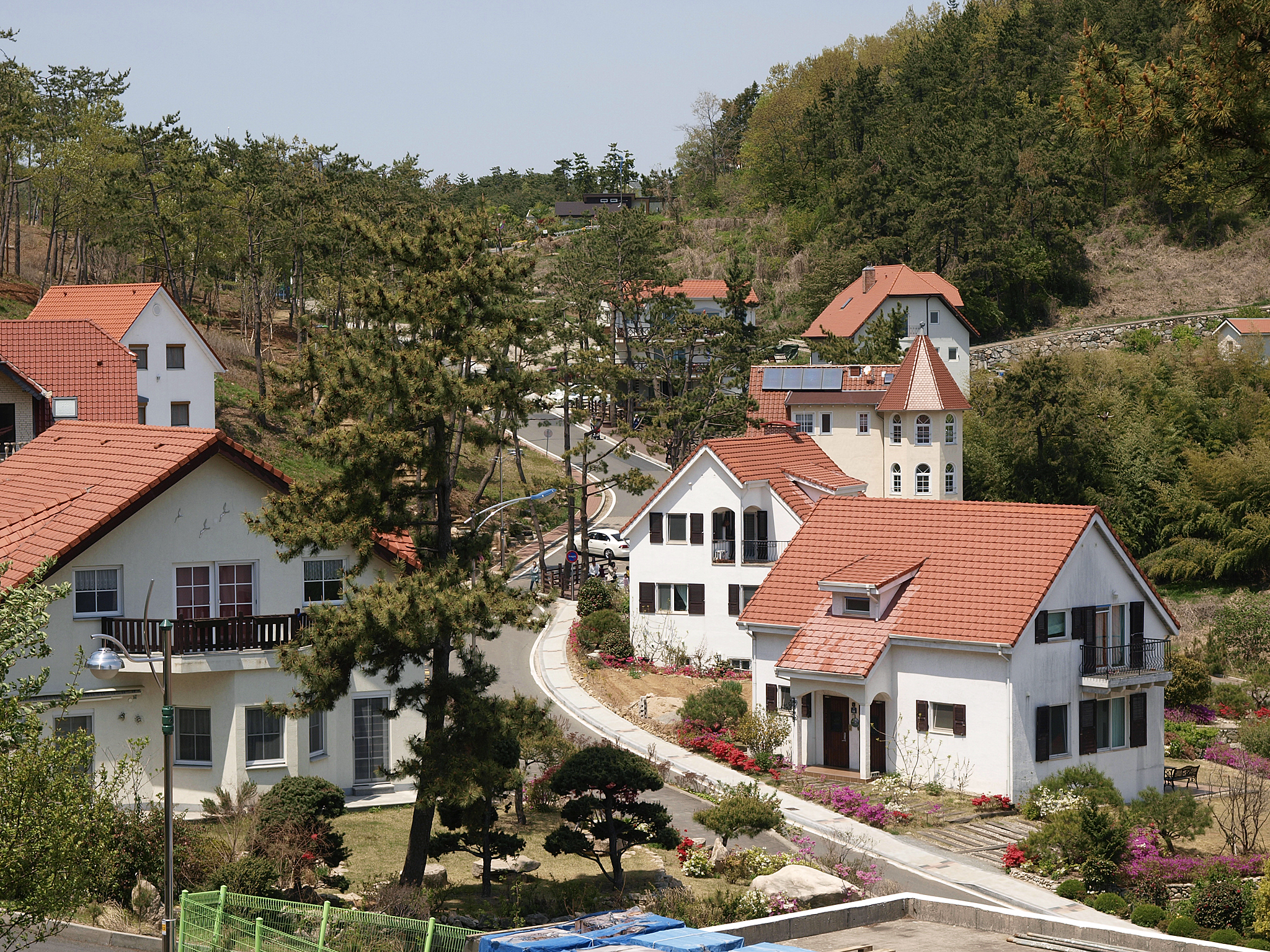 독일 마을 (Dogil Maeul), German Village, Namhae-gun, Gyeongsangnam-do, South Korea